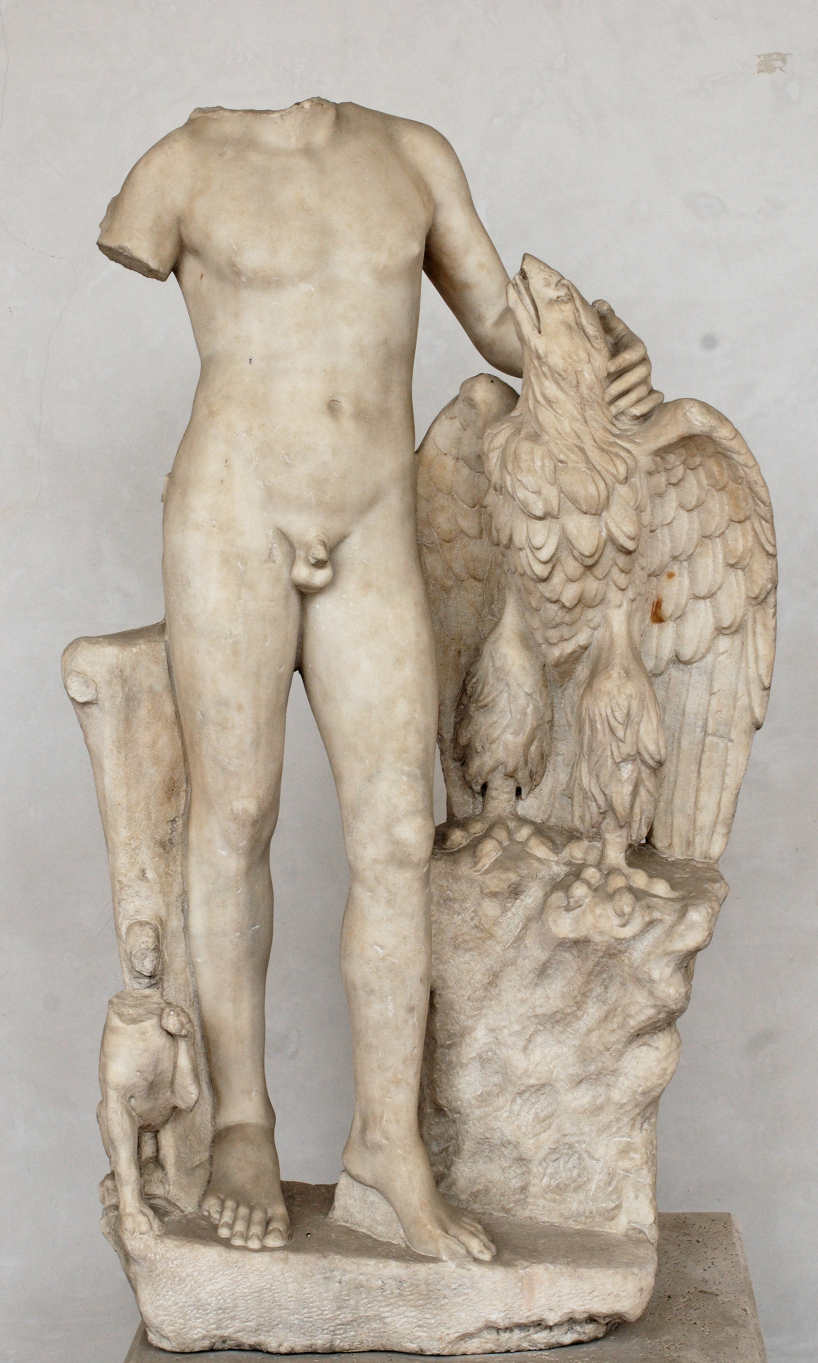 Ganymede with Zeus transformed into an eagle. Luni marble, early 3rd century CE. Found in the remains of a villa Via Prenestina, in Rome.